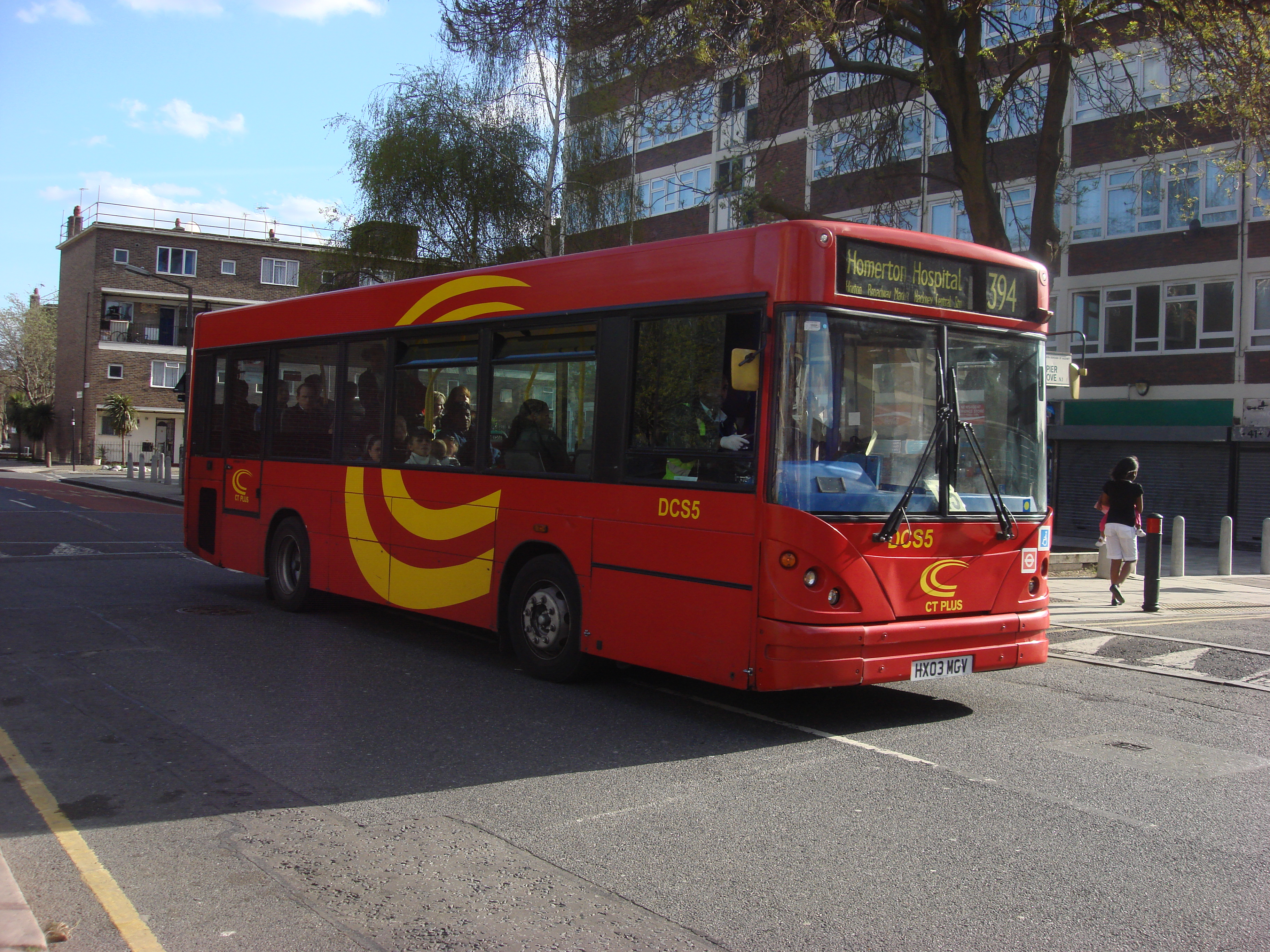 A bus on London Buses route 394 on Cropley Street.